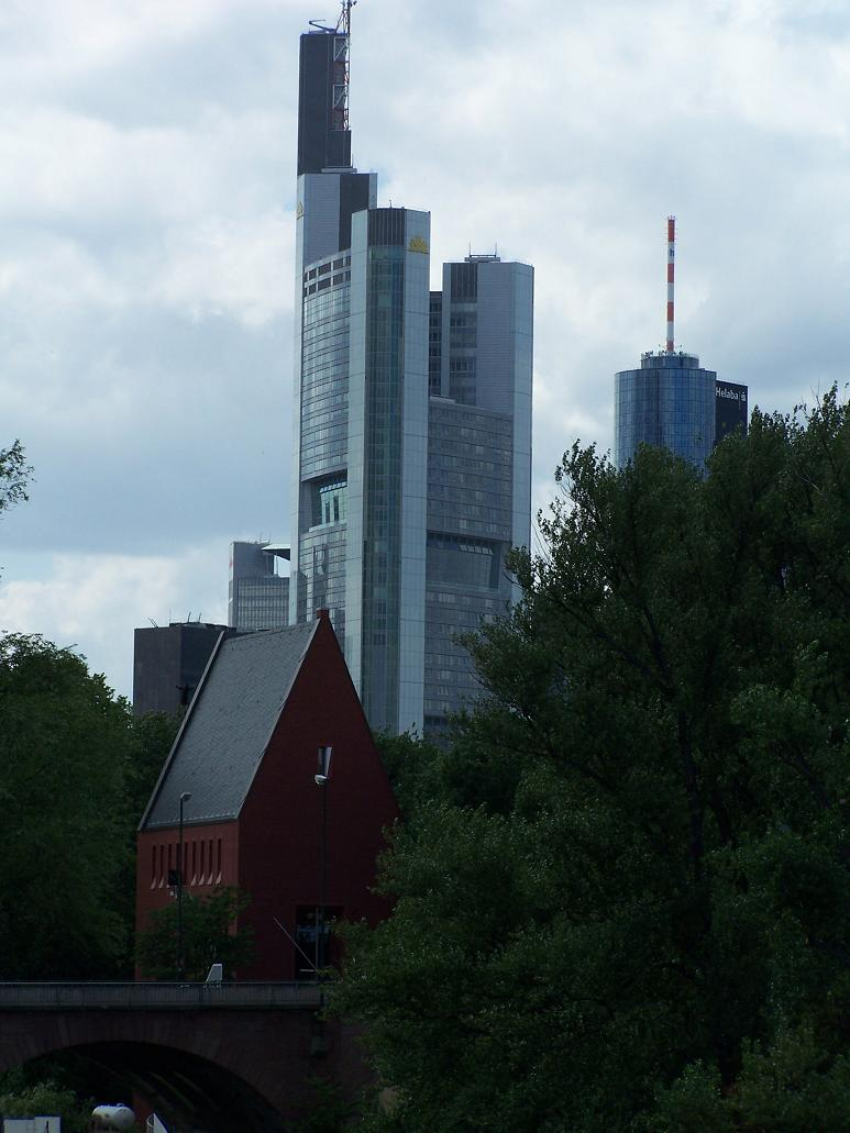 Commerzbank Tower